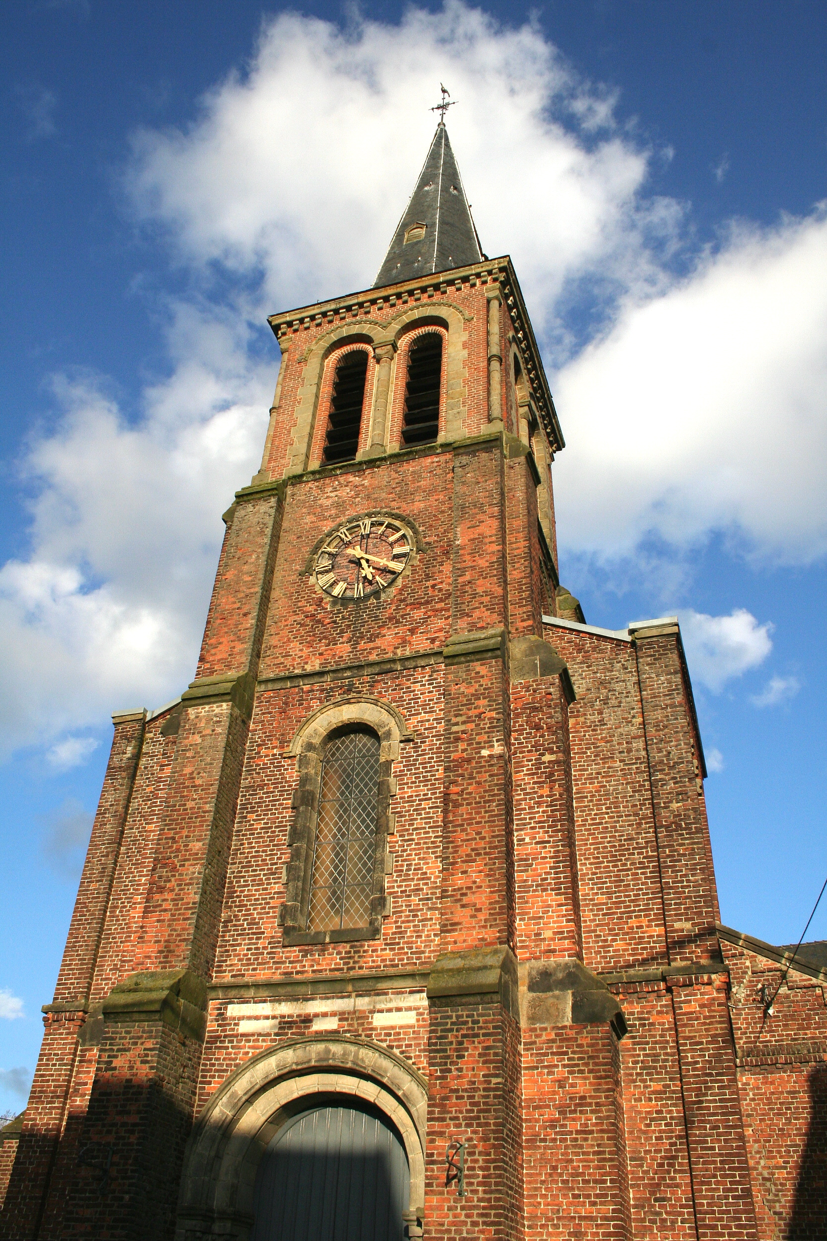 Ligne (Belgium), the church of the Holy Virgin.